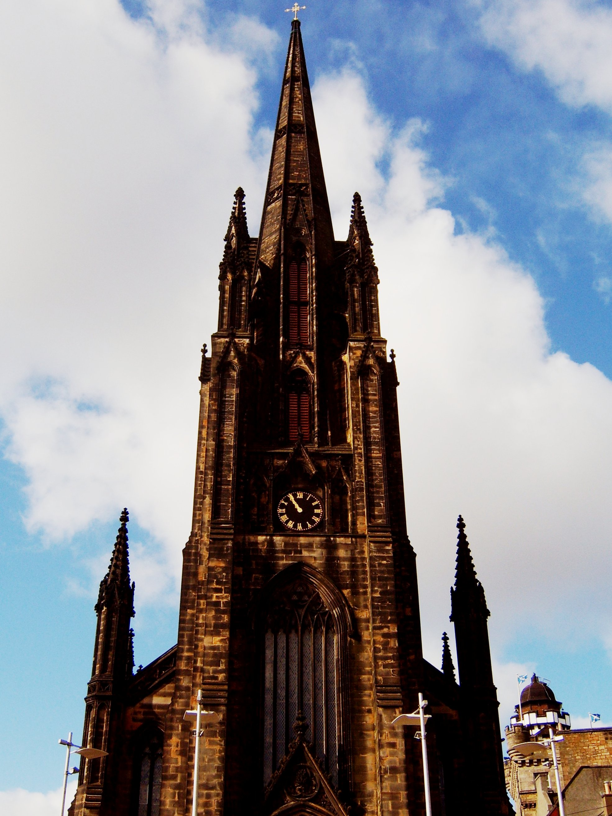 Photo by Fergus Ray-Murray of The Hub in Edinburgh (the former Highland Tollboth Kirk), as seen from the other side of the road at the front.